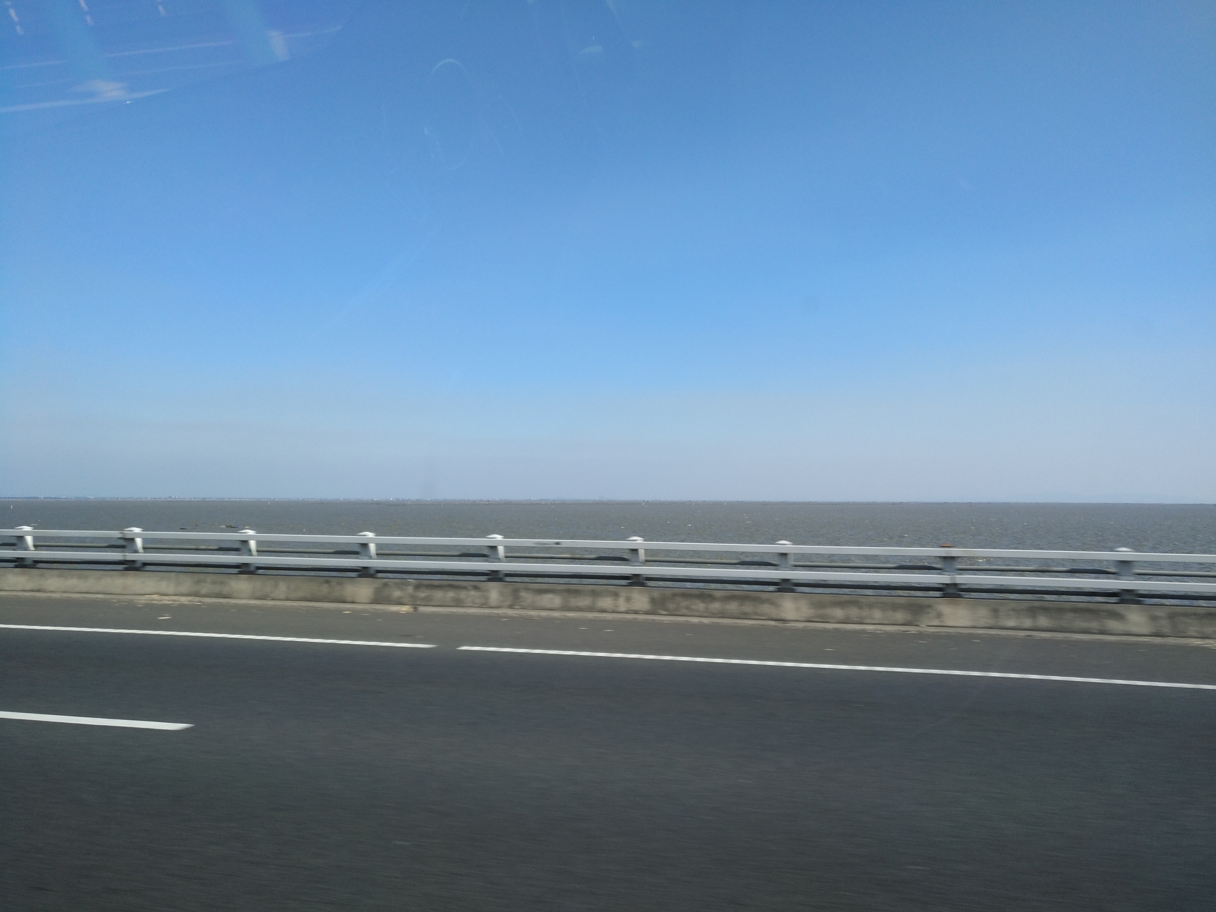 Ge Lake, a lake located between Yixing and Wujin, Jiangsu. Taken from S38 expressway.